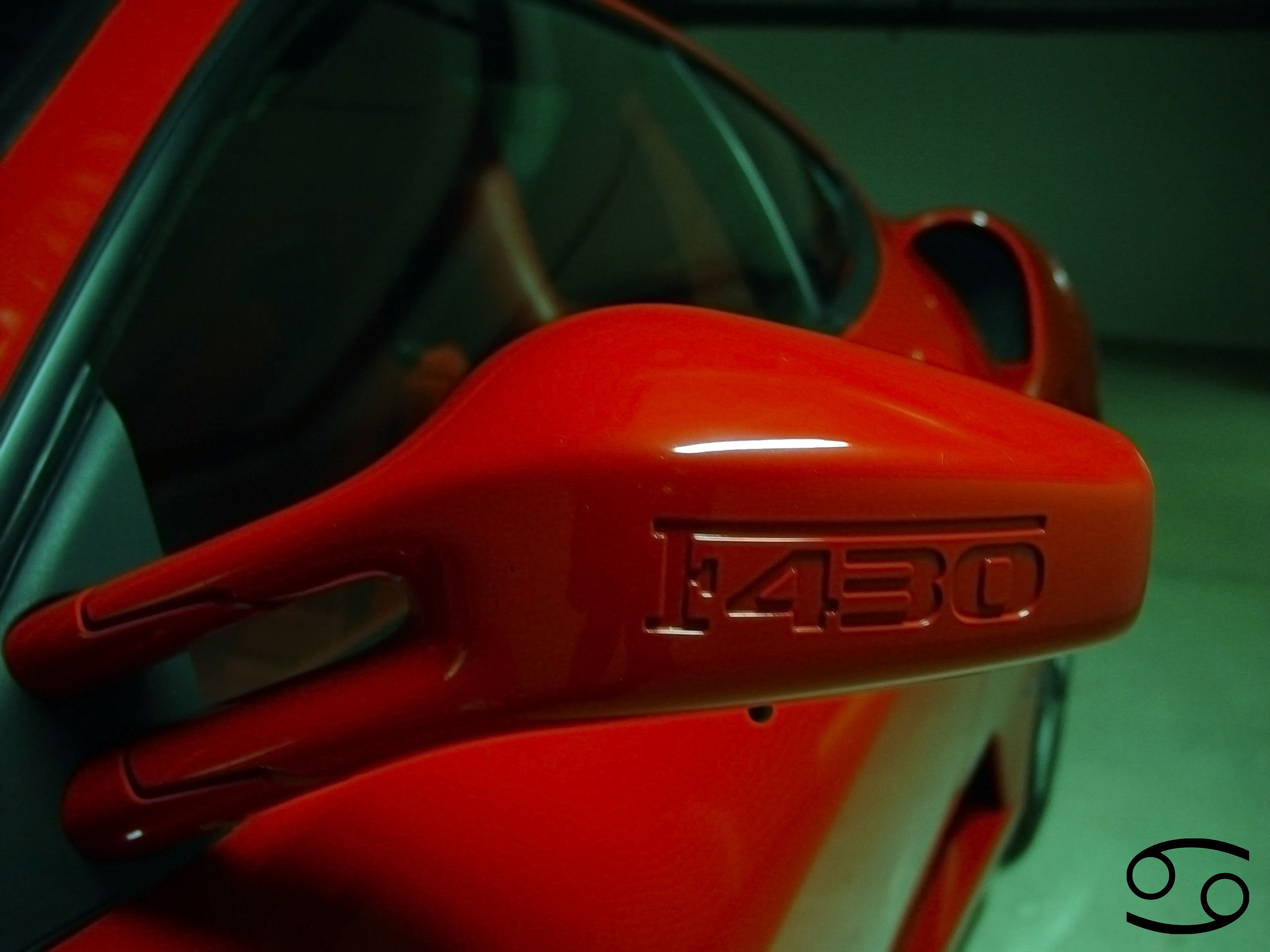 Ferrari F430 side mirror, 2560 x 1920, 4x3, Desktop